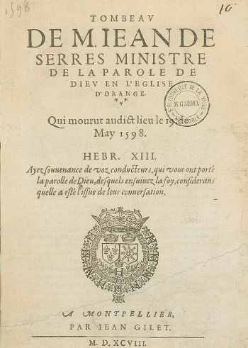 Poems by a French Humanist, published posthumously